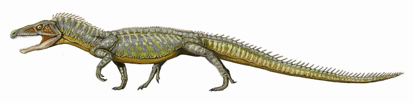 Proterosuchus. Proterosuchus fergusi.